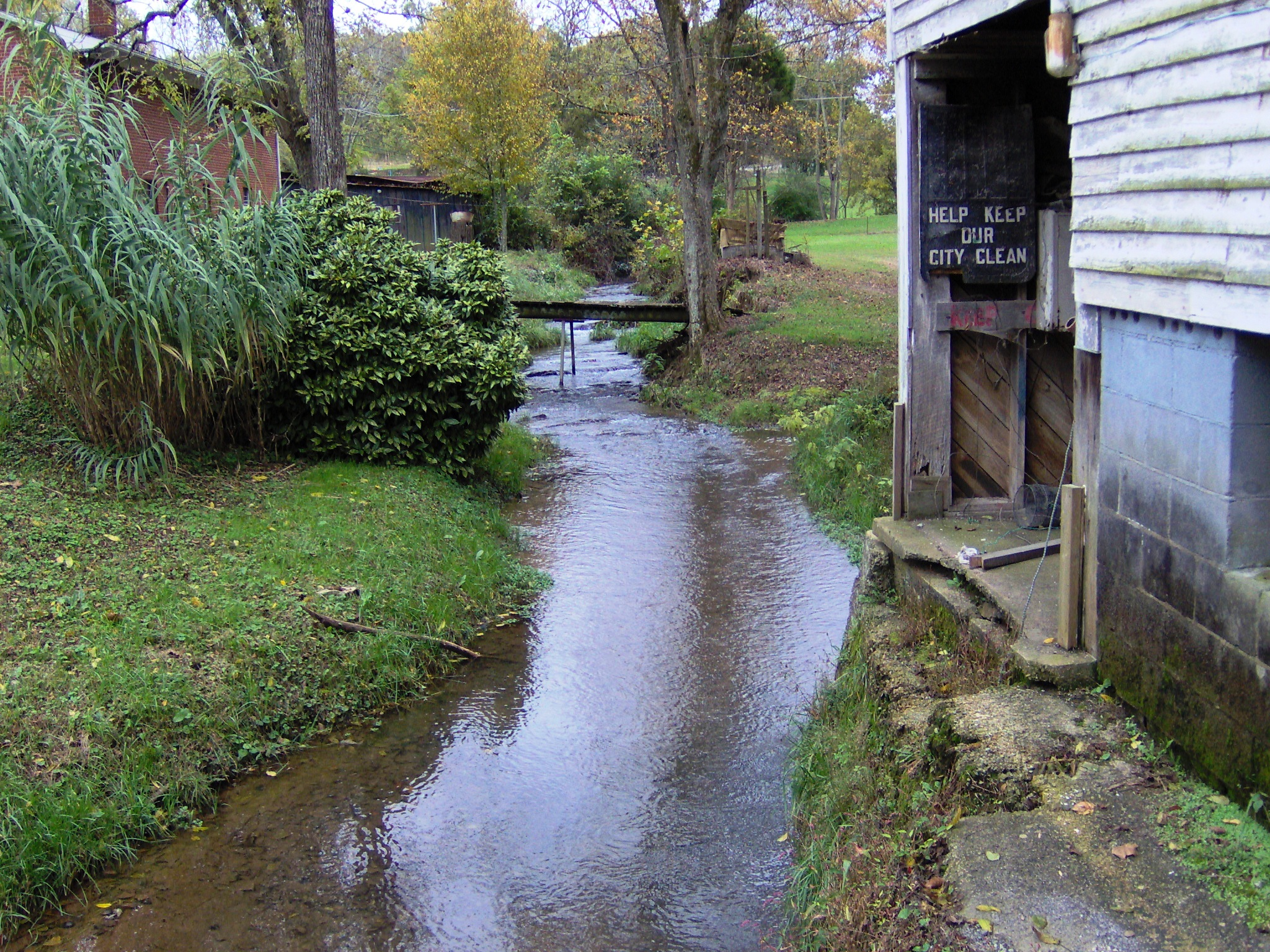 Branch of Bakers Creek that once powered the Clover Hill Mill (part of the mill is visible at the right) in Maryville, Tennessee, USA. The mill is currently powered by electricity.